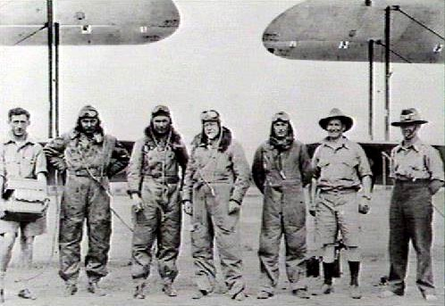 L-R: Flt. Lt. Charlesworth; Flg. Off. Miles; Sgt. Campbell; Dr. Woolnough (geologist in charge); A. C. Hellwig; Sgt. Wilson; unidentified local policeman. Men standing in front of plane Westland Wapiti of RAAF which departed Point Cook, Victoria, on 12 July 1932 for a three-month Commonwealth Geographical Aerial Survey of twenty areas in Australia. In north Australia the areas were Bathurst and Melville Islands and the Daly River basin. The aircraft arrived in Darwin on 17 July 1932 and then the survey departed at 8am on 26 July for Wave Hill thence Western Australia, reaching Point Cook on 13 September.